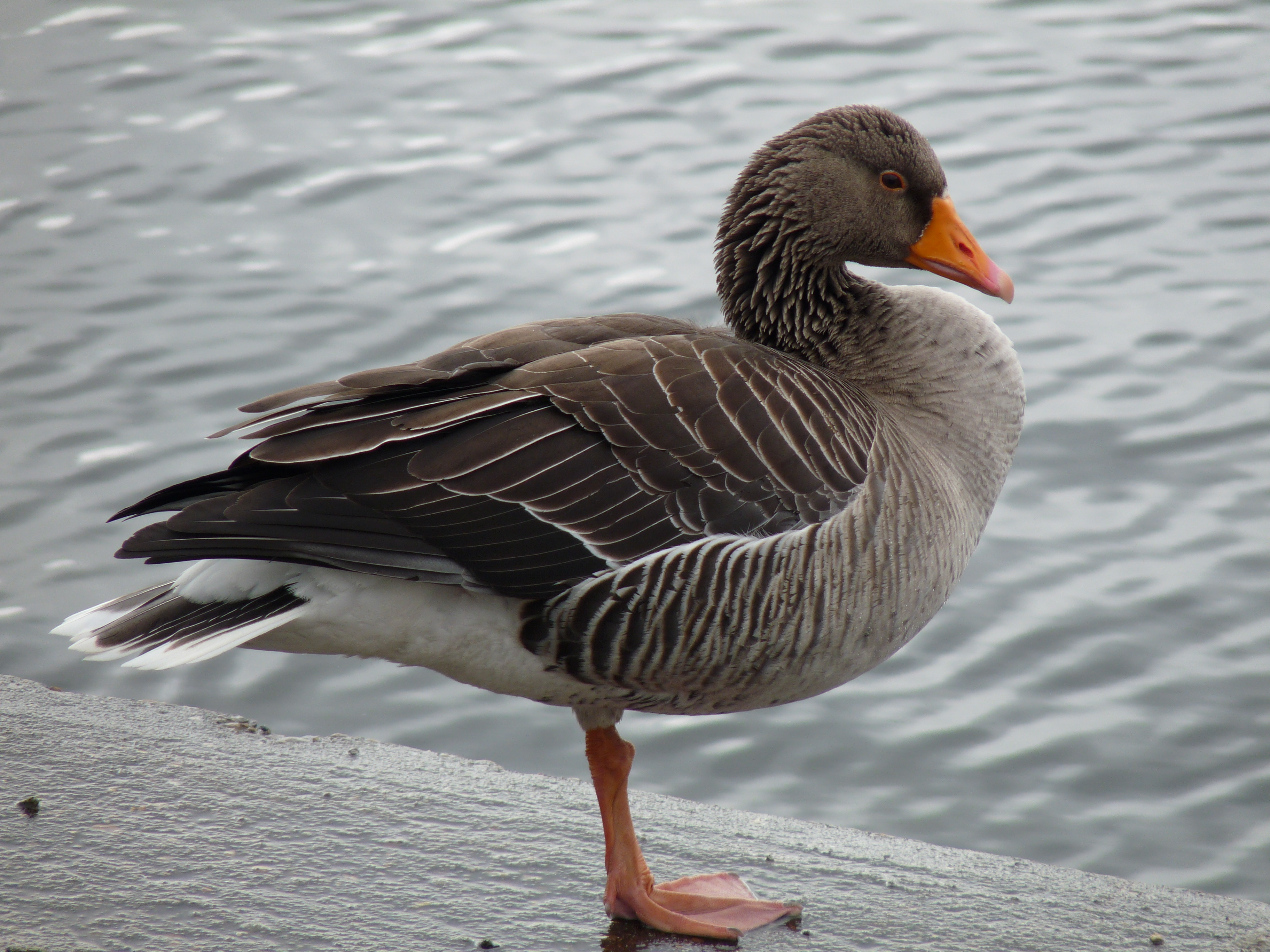 Latin name Anser anser Family Swans, ducks and geese (Anatidae) Overview The ancestor of most domestic geese, the greylag is the largest and bulkiest of... Where to see them ... When to see them All year round in the south; mostly September to March or April where wild... What they eat Grass, roots, cereal leaves and spilled grain